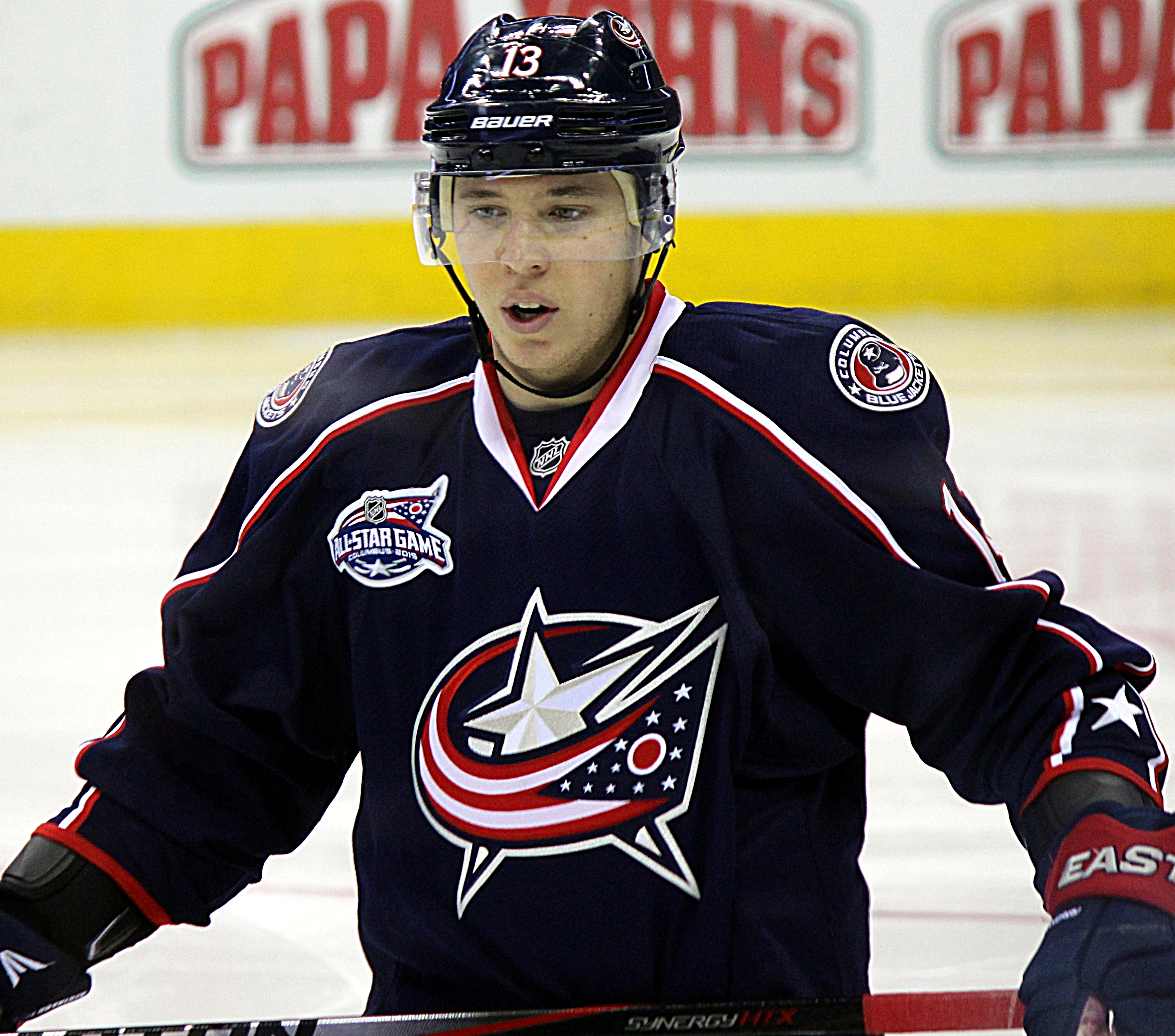 Columbus Blue Jackets forward Cam Atkinson during a game against the Pittsburgh Penguins, December 13, 2014, at Nationwide Arena in Columbus, OH.